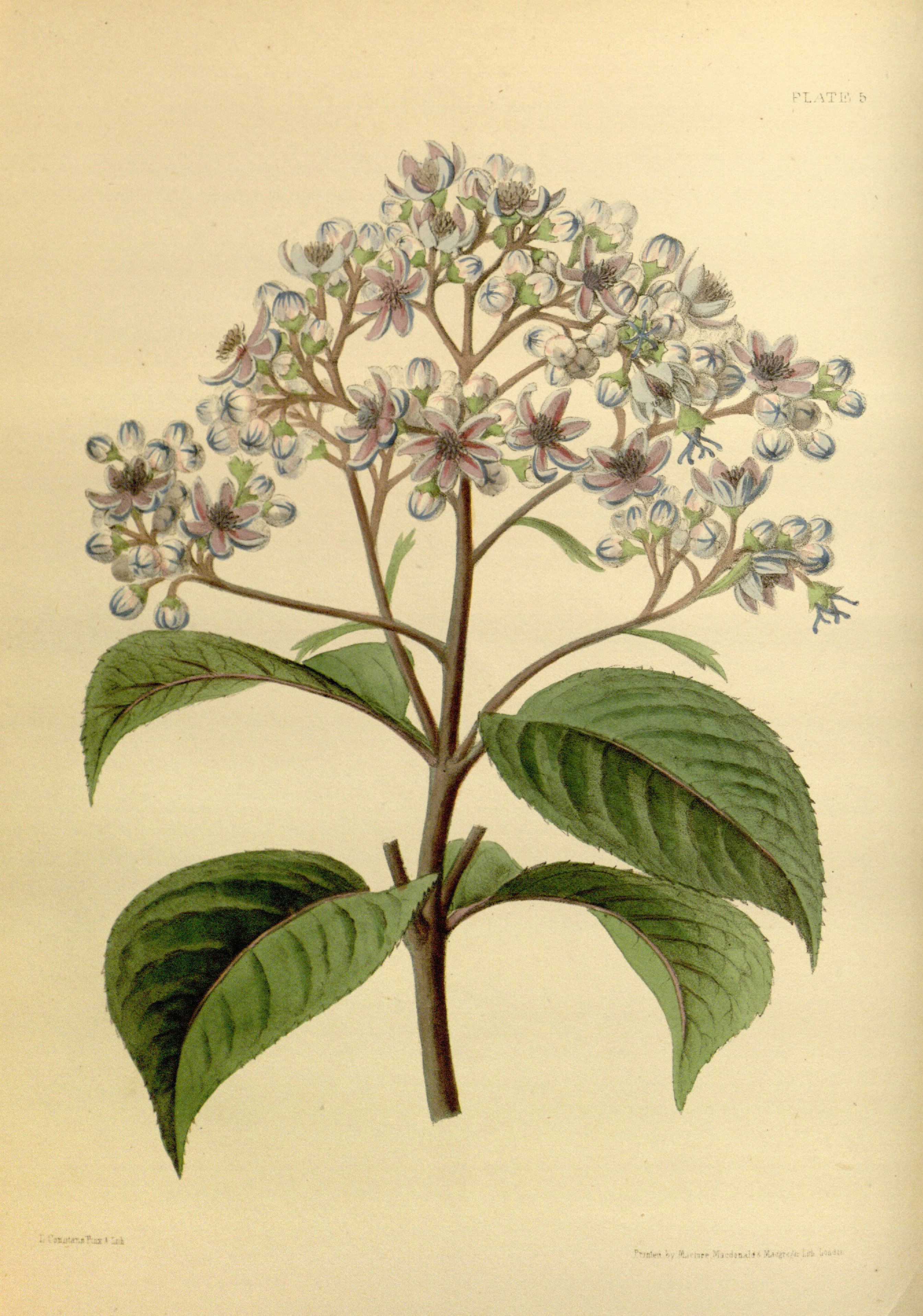 Dichroa febrifuga Lour.